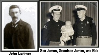 Author: Pamela Lorimer Source: Created from old family picture